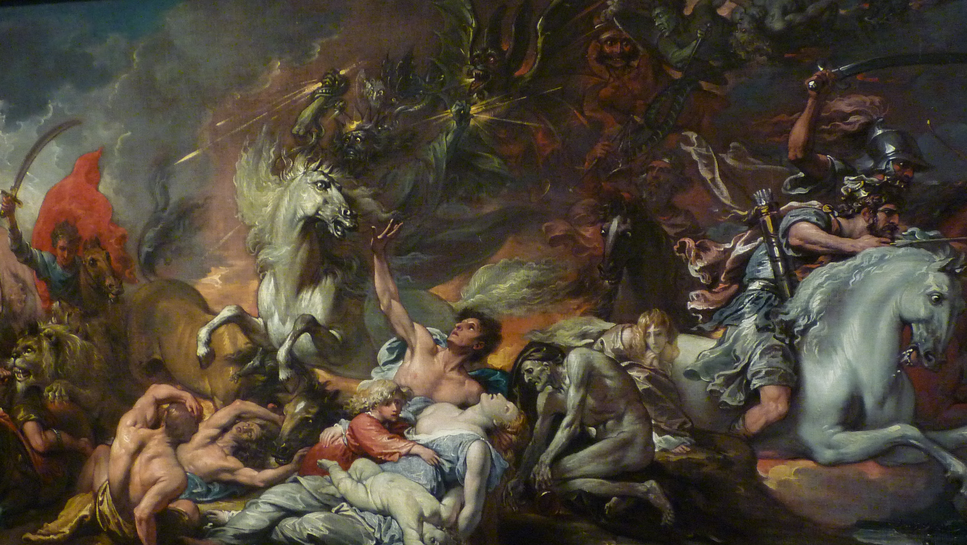 "Death on a Pale Horse"